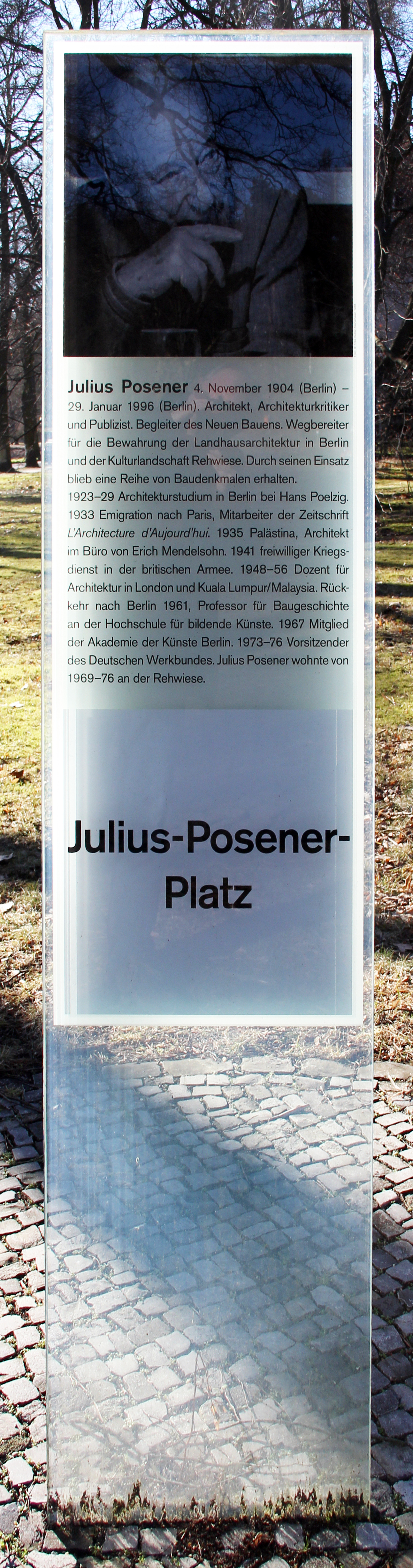 Memorial plaque, Julius Posener, Julius-Posener-Platz, Berlin-Nikolassee, Germany